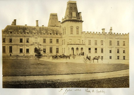 St Giles House on the Shaftesbury Estate in Wimborne St Giles. Photo taken in 1862 by Harriet Ashley-Cooper, Countess of Shaftesbury.